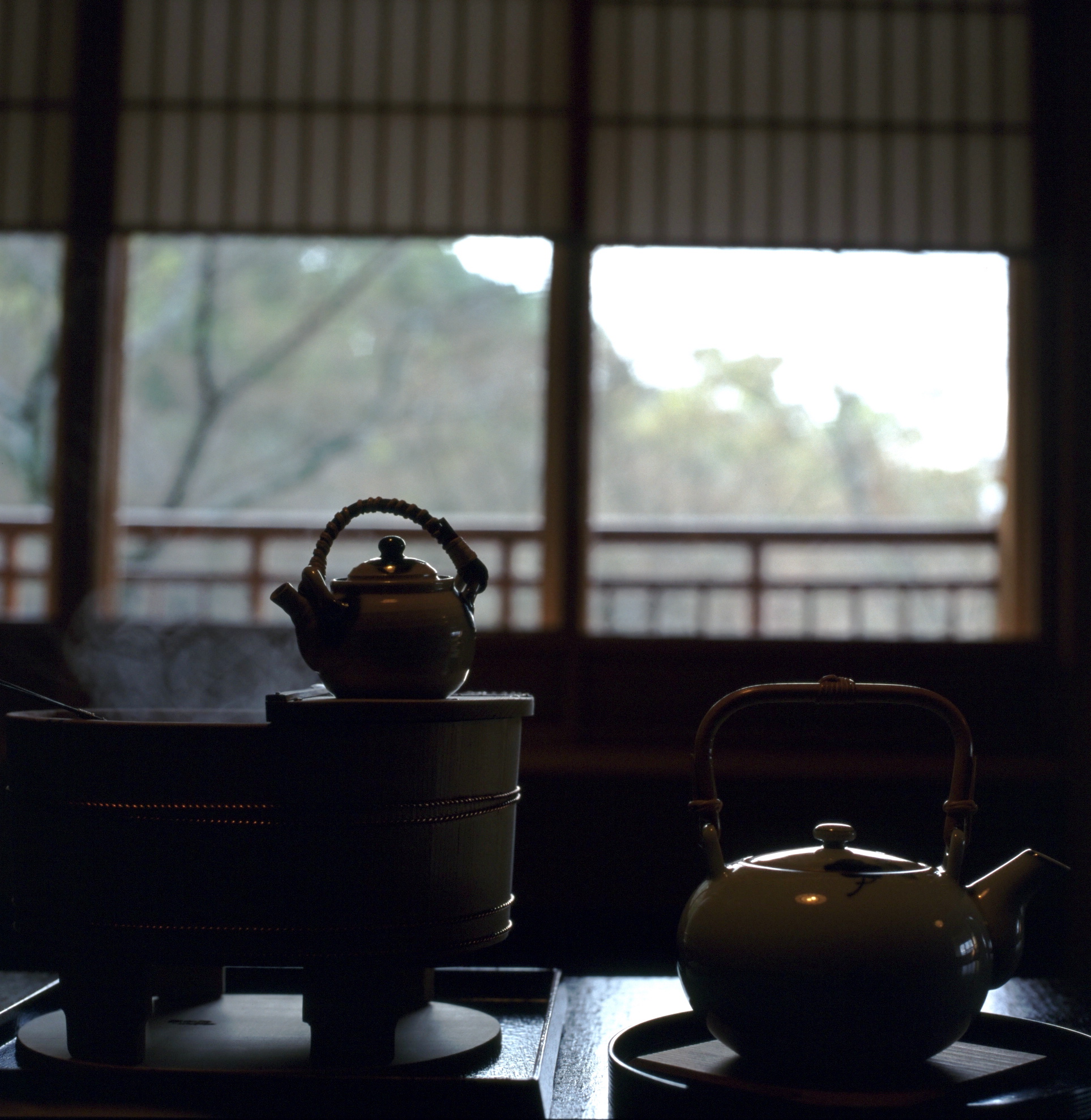 Title: Morning Yudofu